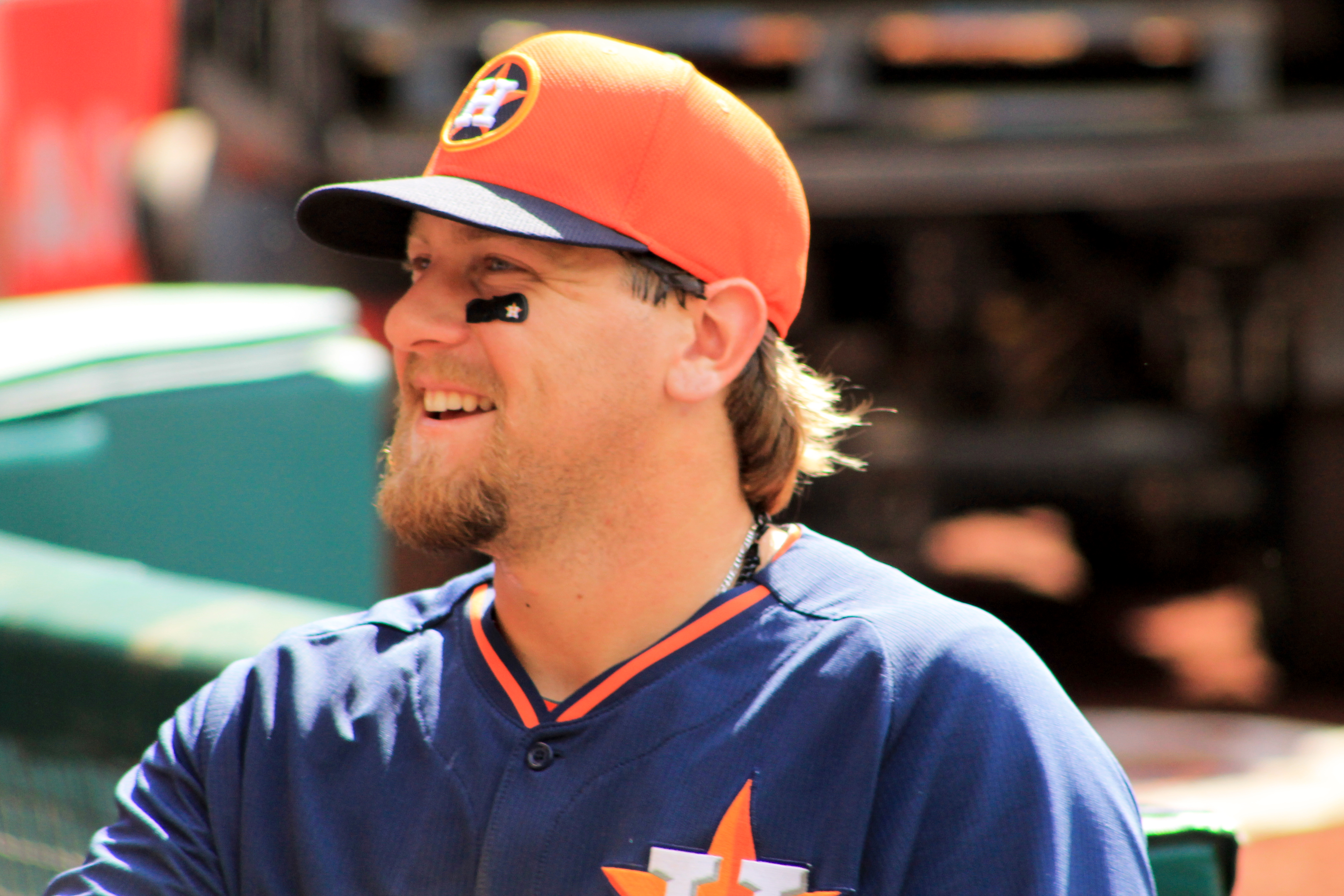 Houston Astros minor league player Jonathan Meyer signs autographs after an Astros exhibition game at Minute Maid Park against Veracruz in March 2014.